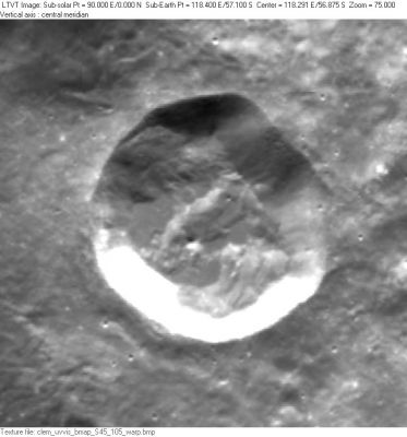 Kimura lunar crater - Clementine image